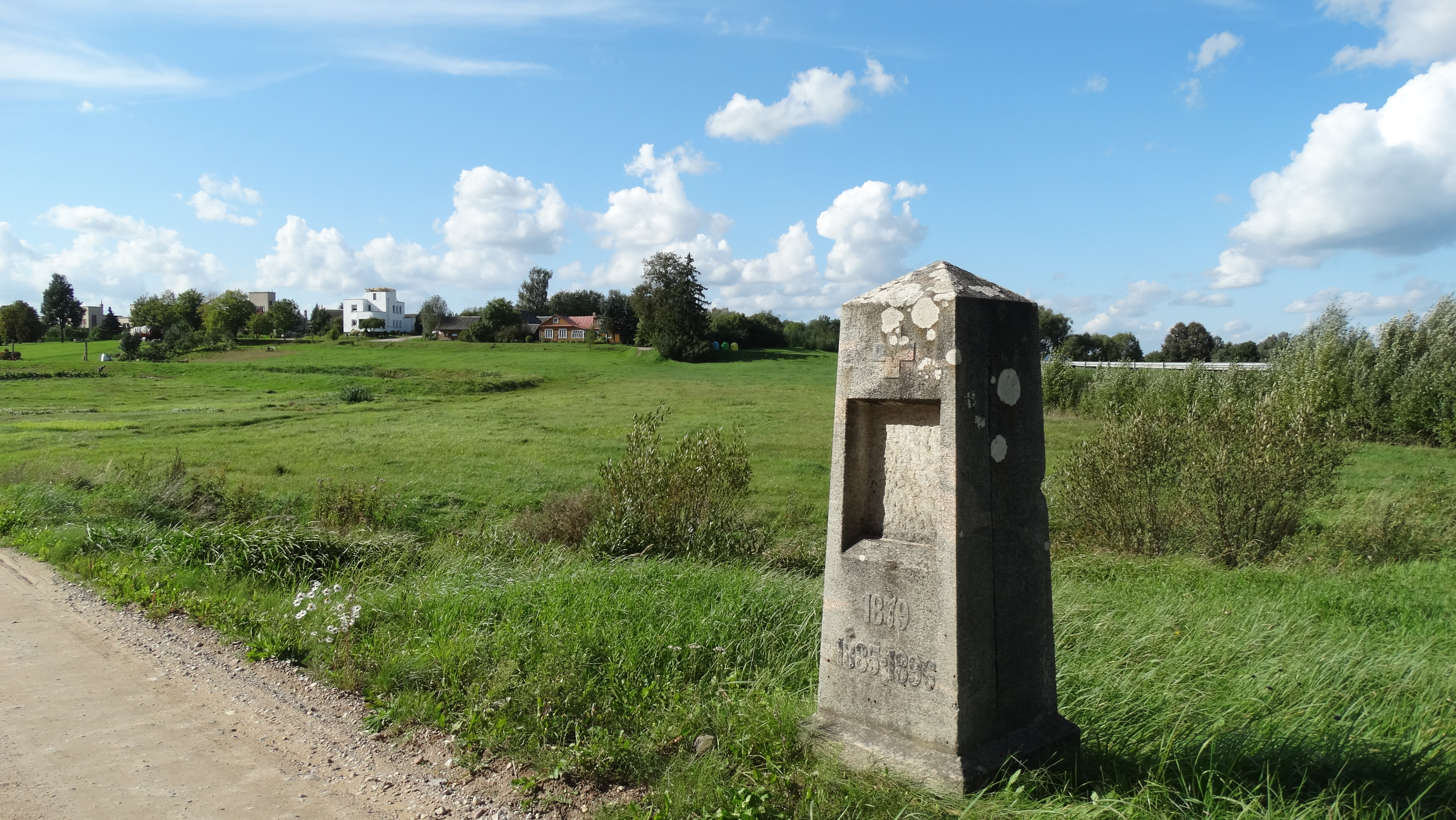 Vyžuonėlės, obelisk, Utena district, Lithuania